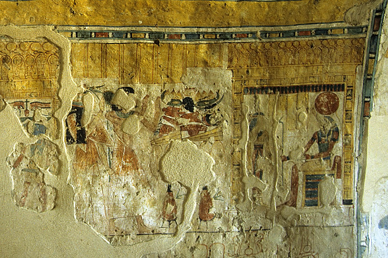 Tomb of Shuroy, deceased and wife adore Maat and Re-Harachte, TT 13, Dra' Abu el-Naga, Luxor West Bank, Egypt